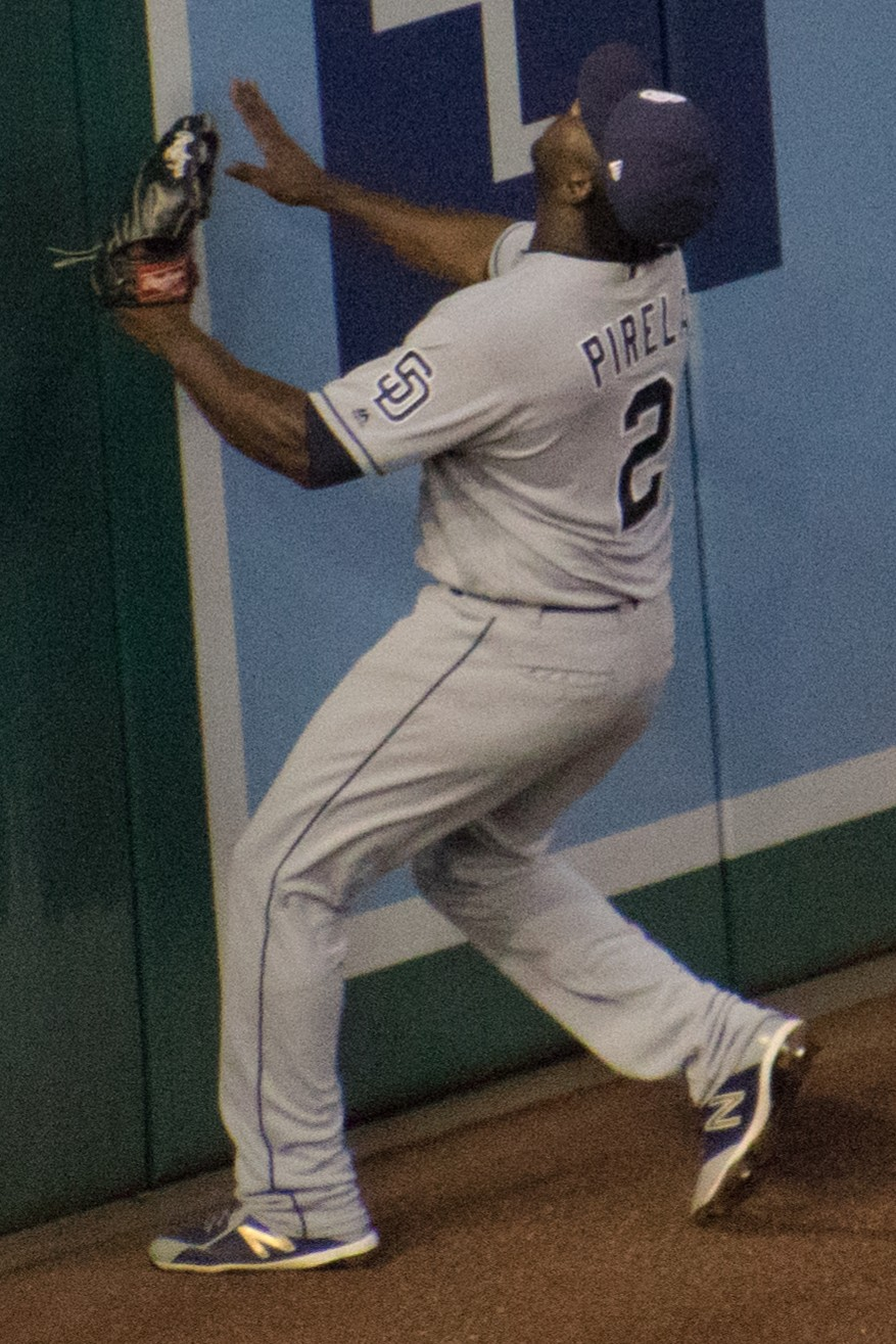 José Pirela